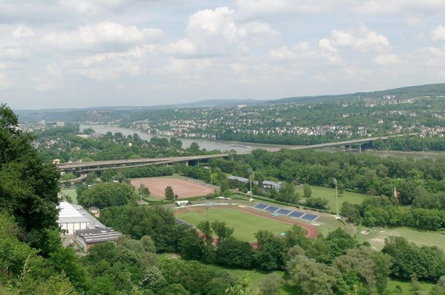 Stadion Oberwerth in Koblenz